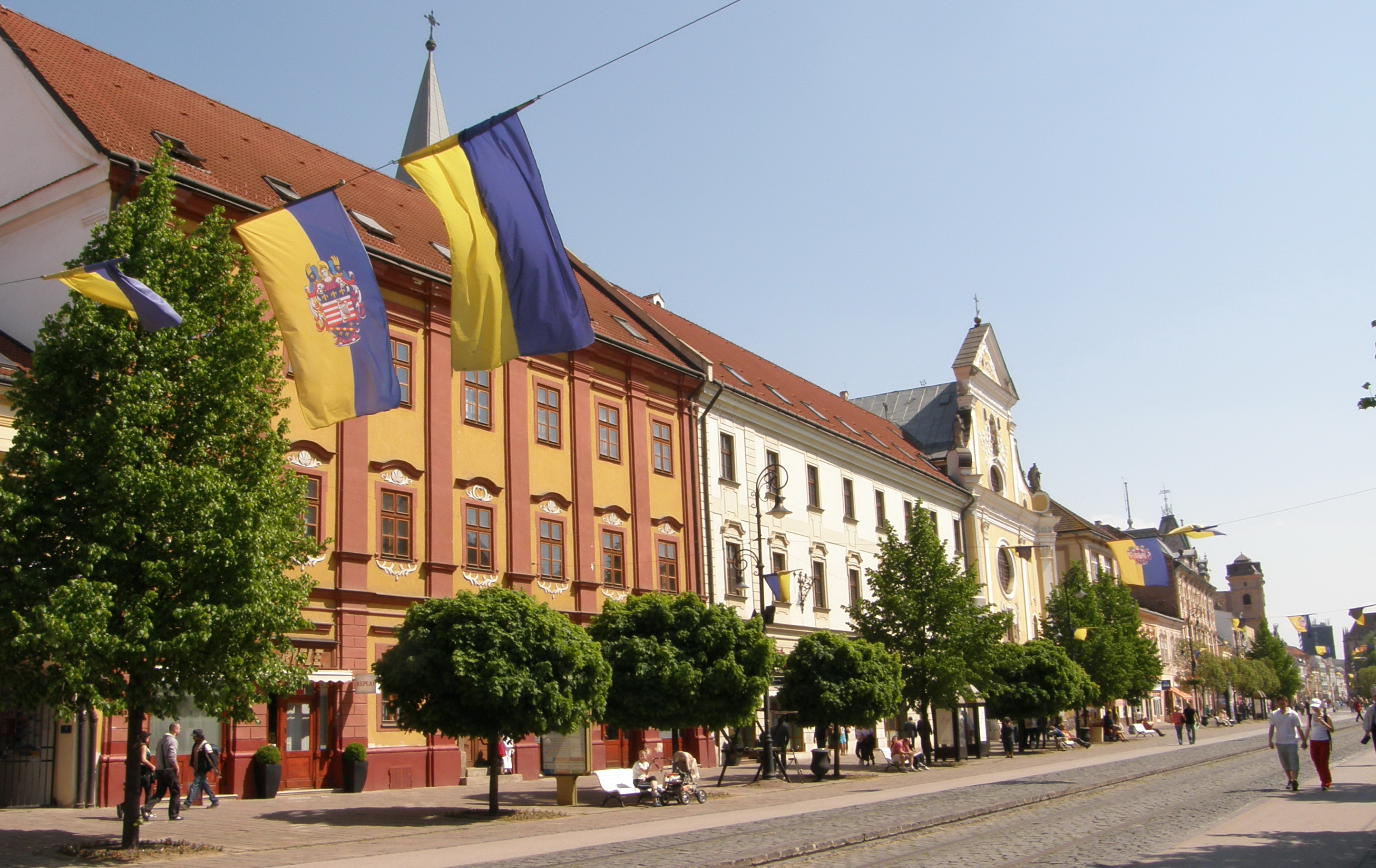 First orange building from the left along with the adjacent white building on its right is the Seminary building. The Seminary church is the Yellow Church on the far right. The Faculty of Theology is the first three floors. The seminary is on the fourth and fifth floors.